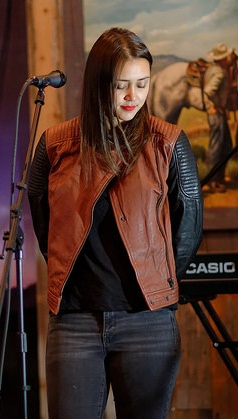 Dia Frampton performing live at Tinhorn Flats in Hollywood (Los Angeles) California on Friday May 1st, 2015. Dia was the headliner of the She Rocks ASCAP Expo Showcase, hosted by the Women's International Music Network (WiMN).